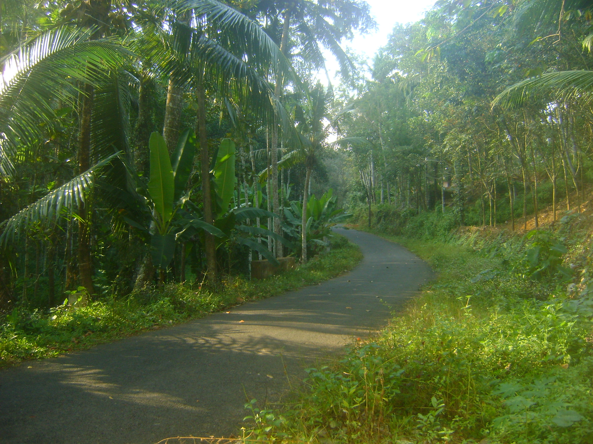 Ranni bypass links Ranni town with Chellakkad